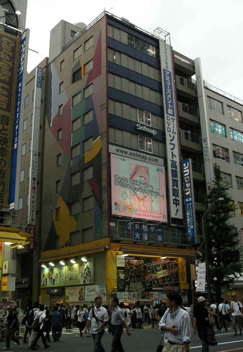 Sofmap Akihabara honten, Tokyo, Japan